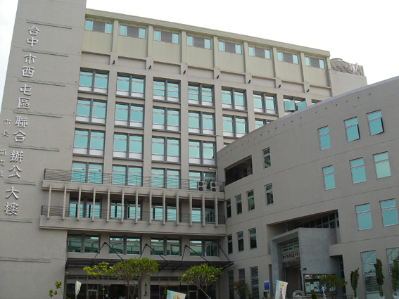 Xitun District Administration Building, Taichung City.